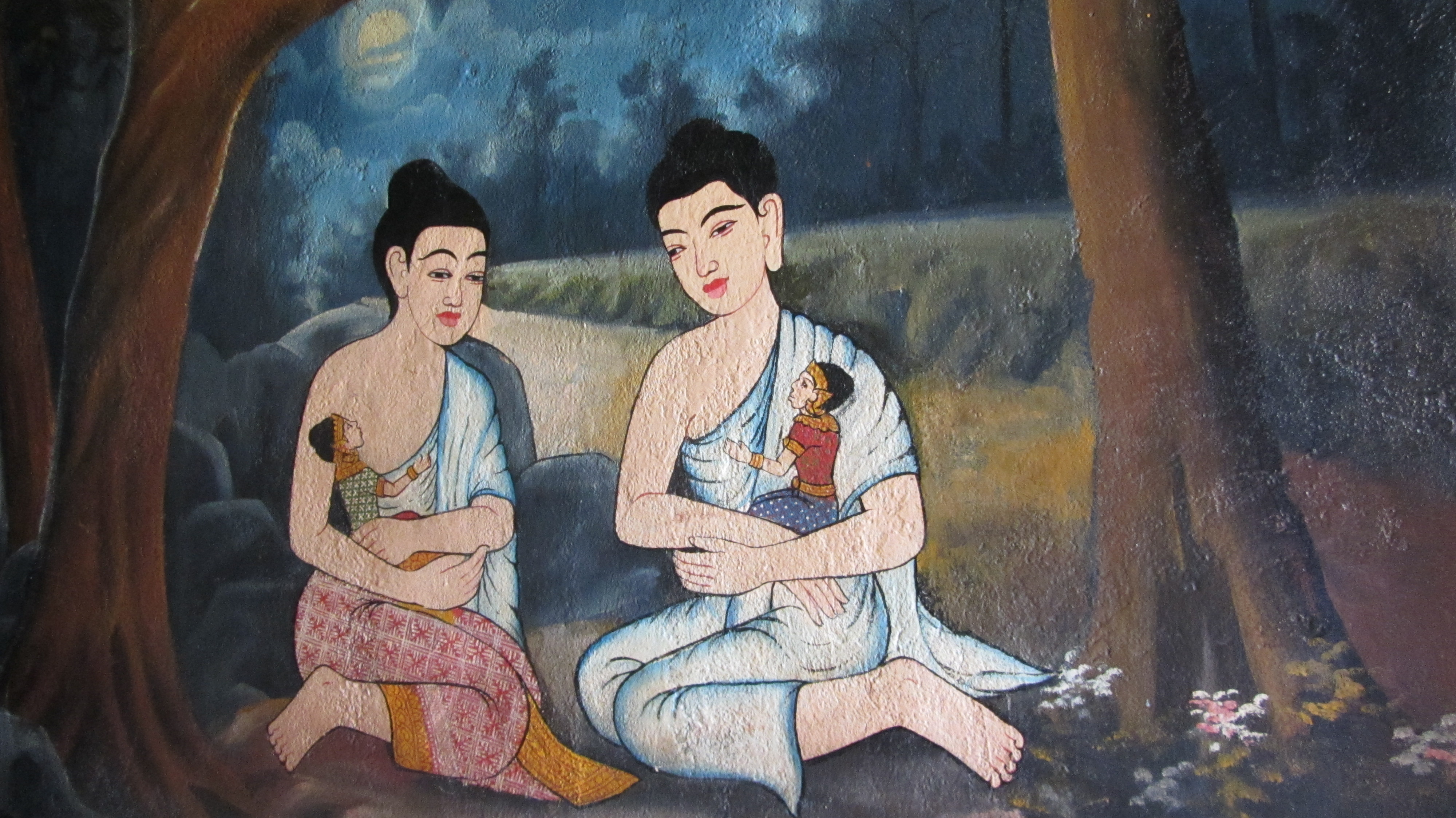 Preah Vesondor and his family abandoned in a jungle